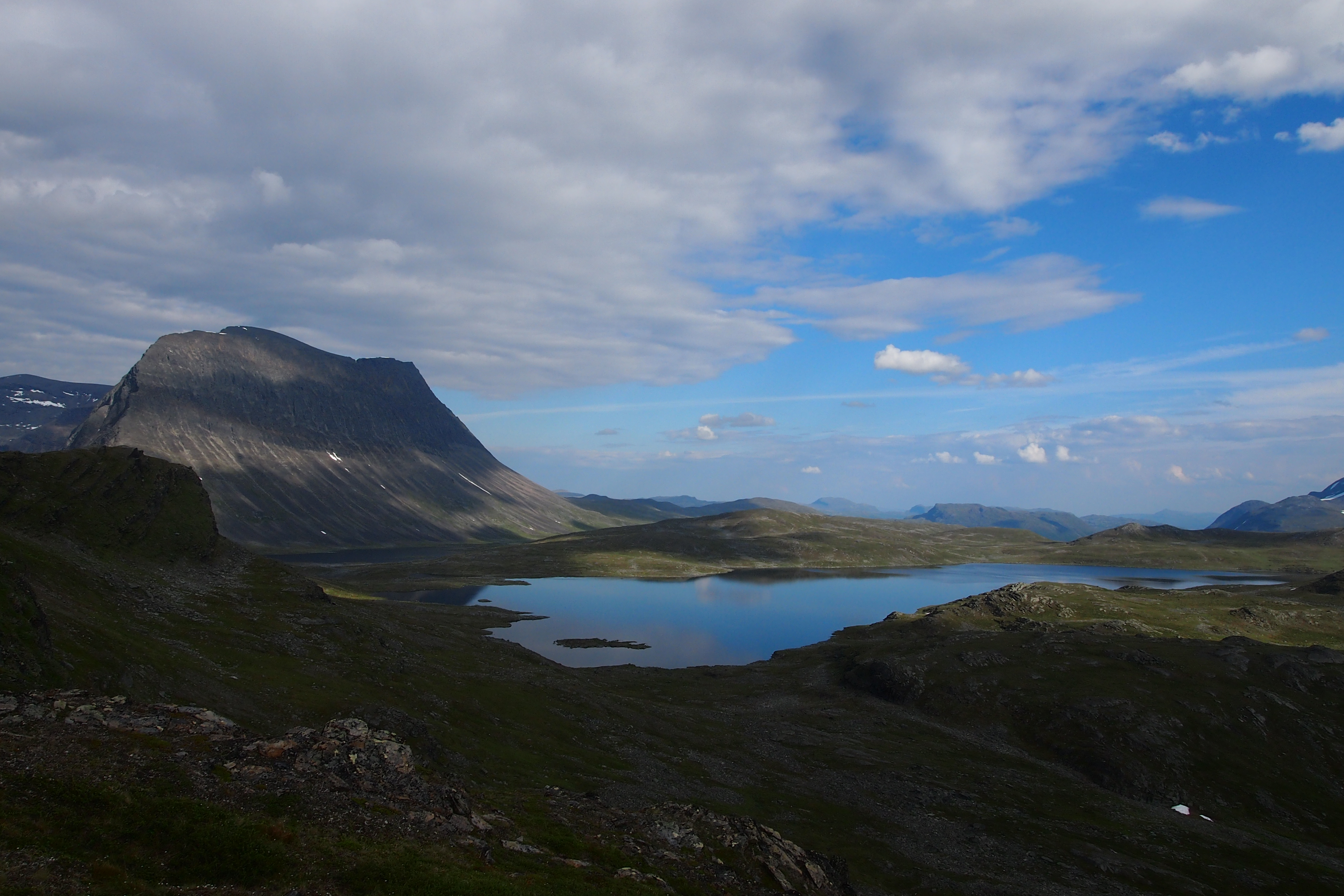 The mountain Liddubakti and the lake Jortajaure.